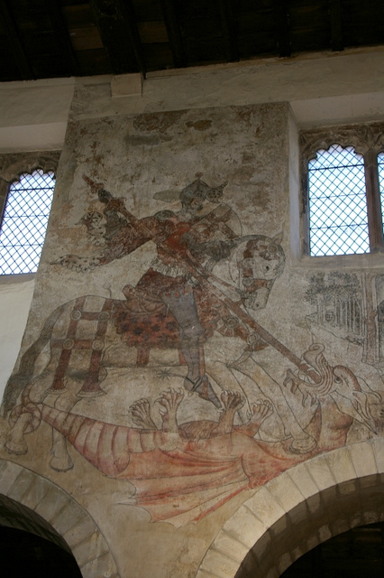 Pickering Church Interior - Ancient Mural